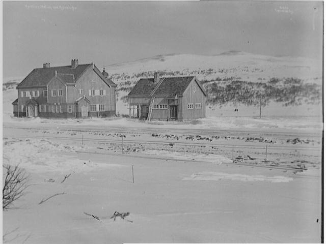 Hjerkinn railway station on Dovrebanen, Dovre, Norway.